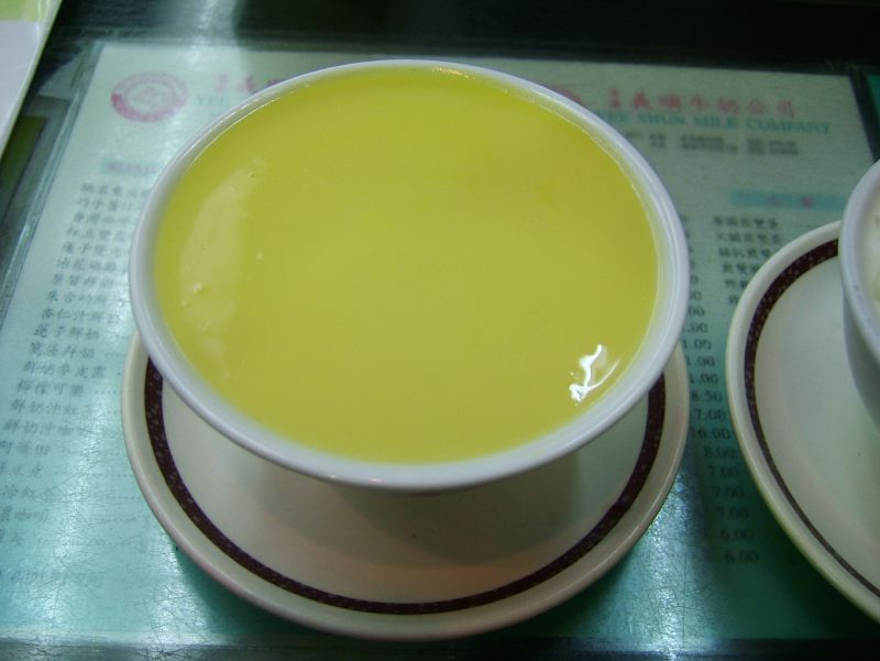 Steamed egg desert